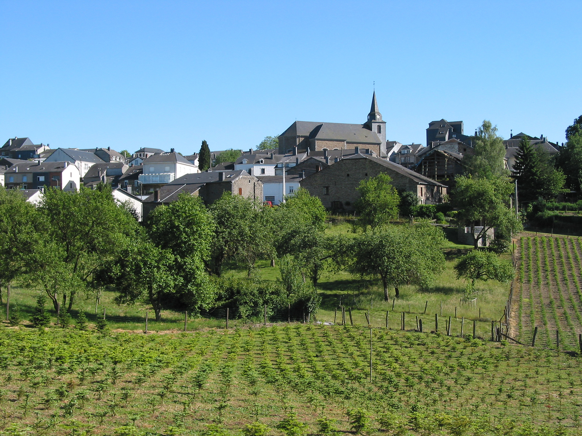 Corbion (Belgium), the village in the summer.